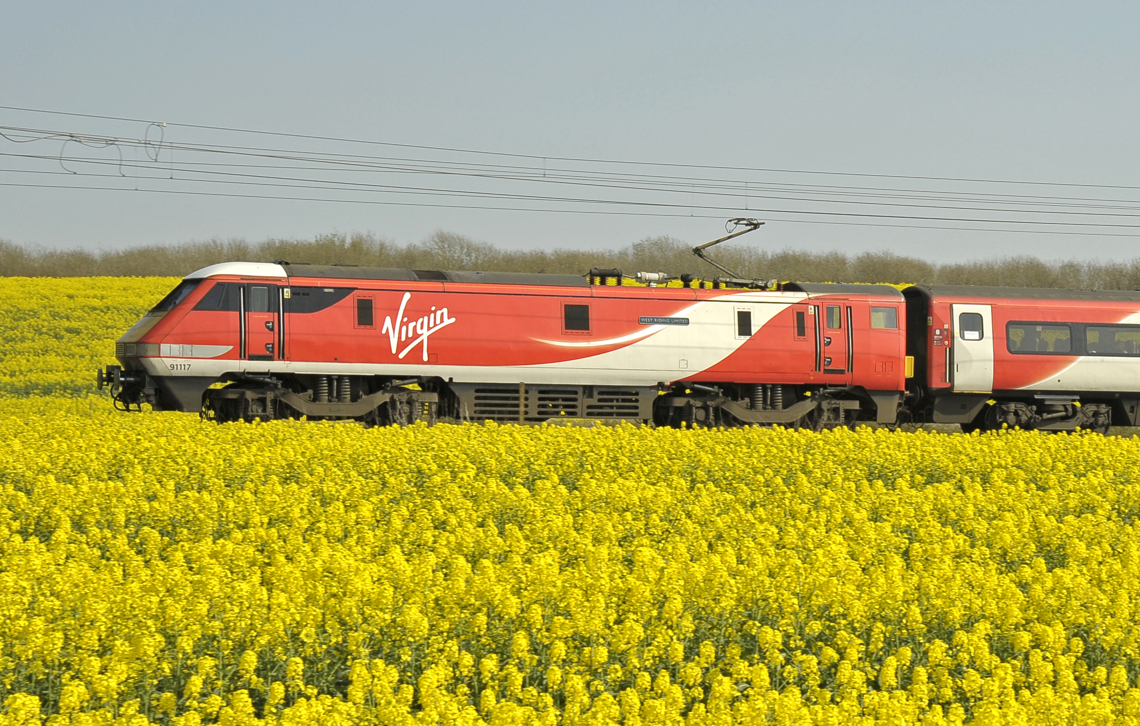 Class 91 amongst the rape fields in Nottinghamshire